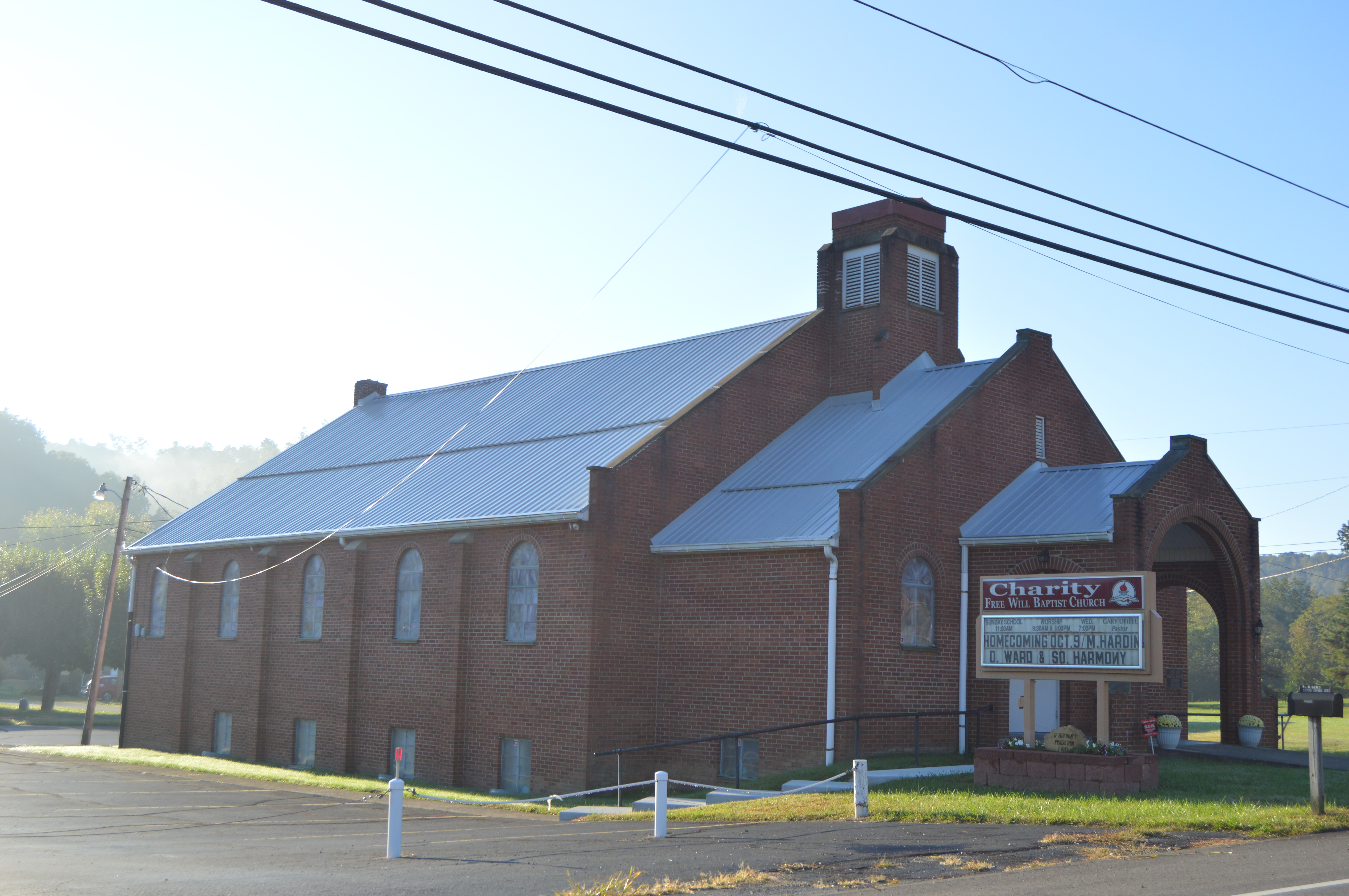 Front and northern side of the Charity Free Will Baptist Church, located at 7432 State Route 139 in Clarktown, Ohio, United States. It was built in 1930.